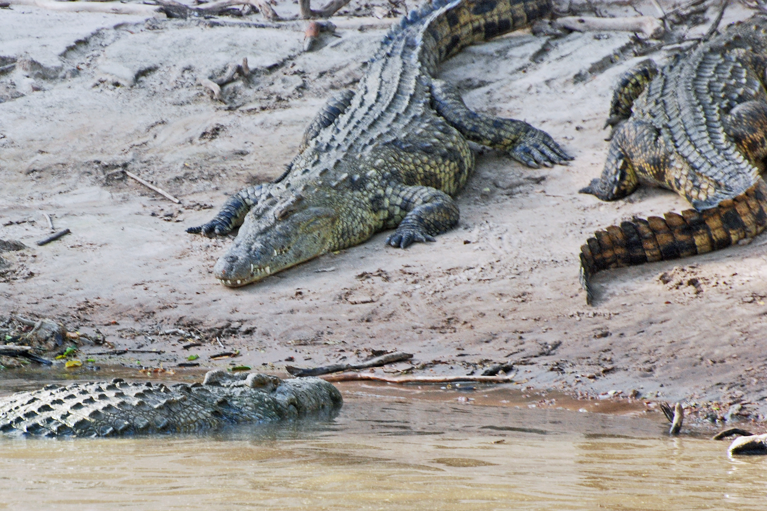 The Nile crocodile or common crocodile (Crocodylus niloticus)